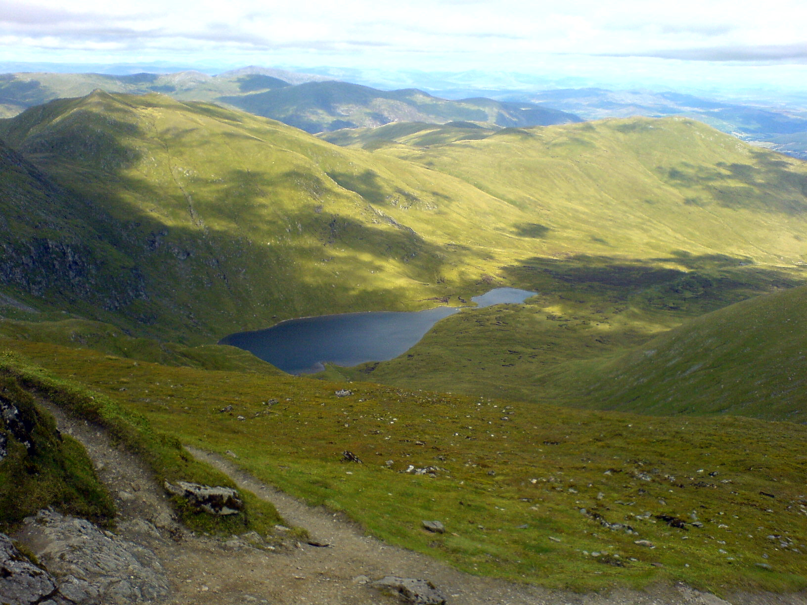 Lochan Nan Cat from the summit of Ben Lawers. The east ridge of Lawers can be seen to the right of the image, Meall Garbh and Meall Greigh border the loch to the north. The loch feeds Lawers Burn which runs into Loch Tay at Lawers village.